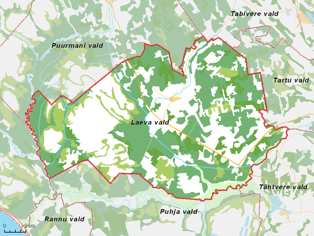 Map of municipality in Estonia